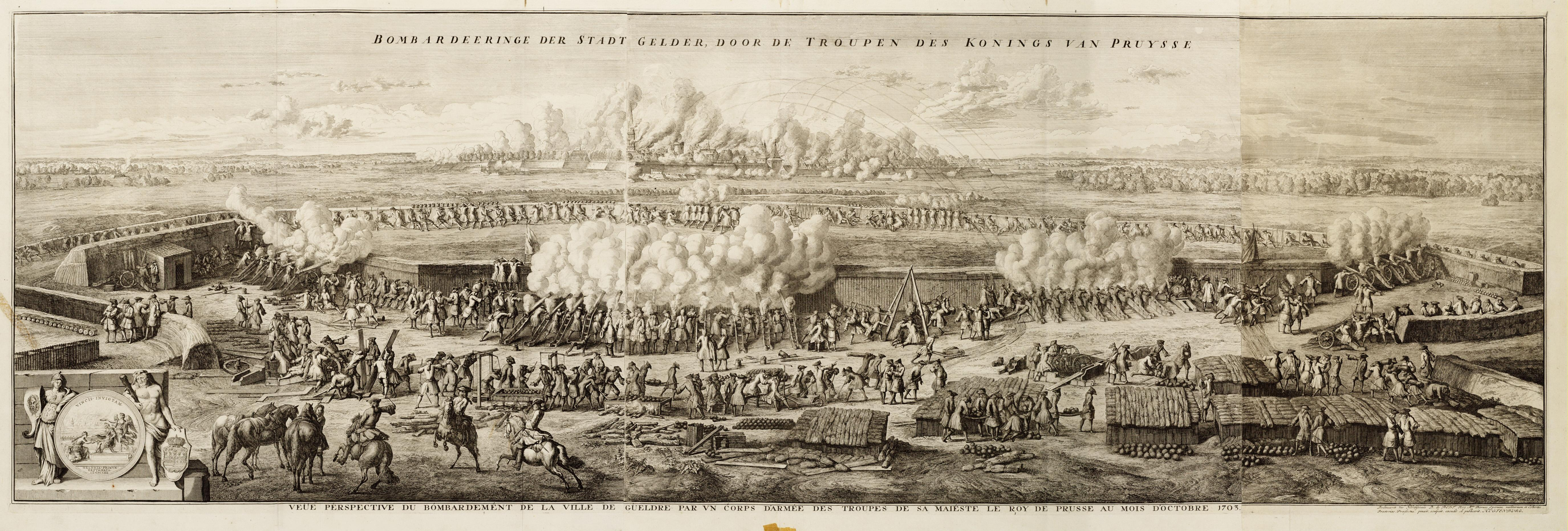 Bombardement of the city Gelder, by troops of the King of Prusia